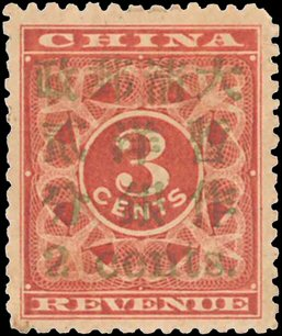 Red 9